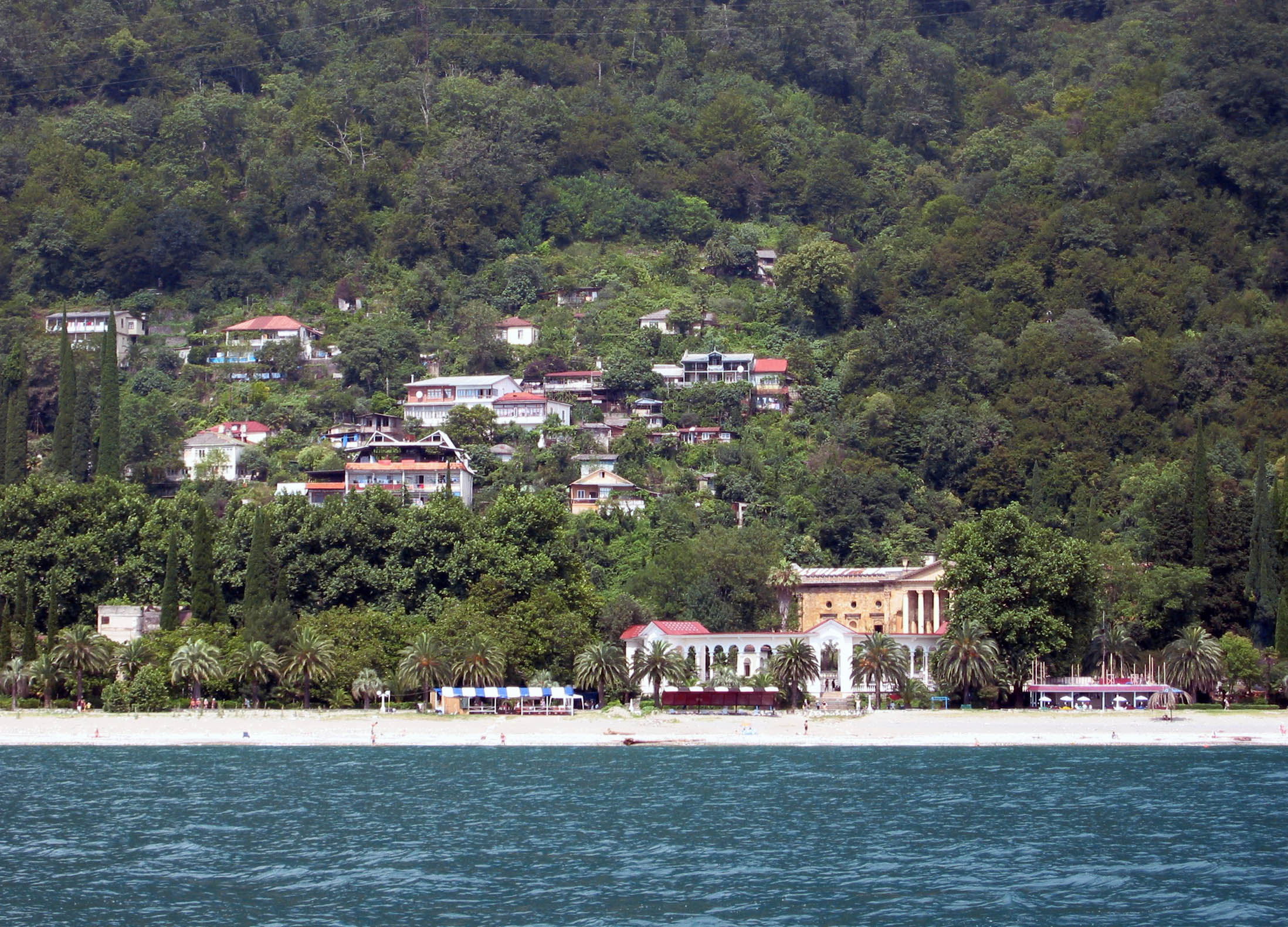 Colonnade at Gagra town park